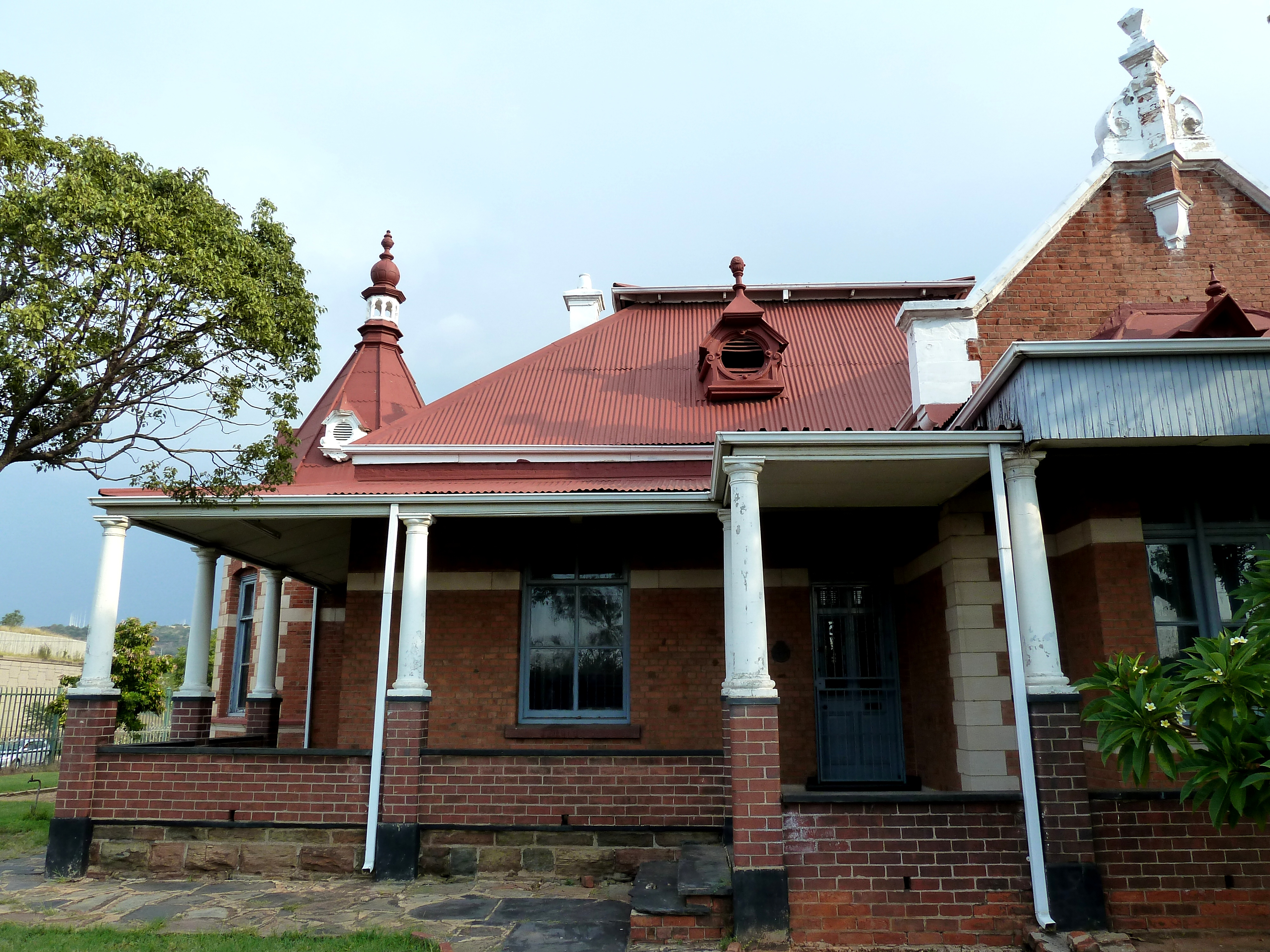 1 Artillery Row, a former officer's residence of the State Artillery Corps, Salvokop, Pretoria, is one of 15 residences that date from c.1897. It was the home of S.P.E. Trichard and Thomas Pullen. In the 1970's it was an SADF recruitment office, and today houses the Dequar Military Police.